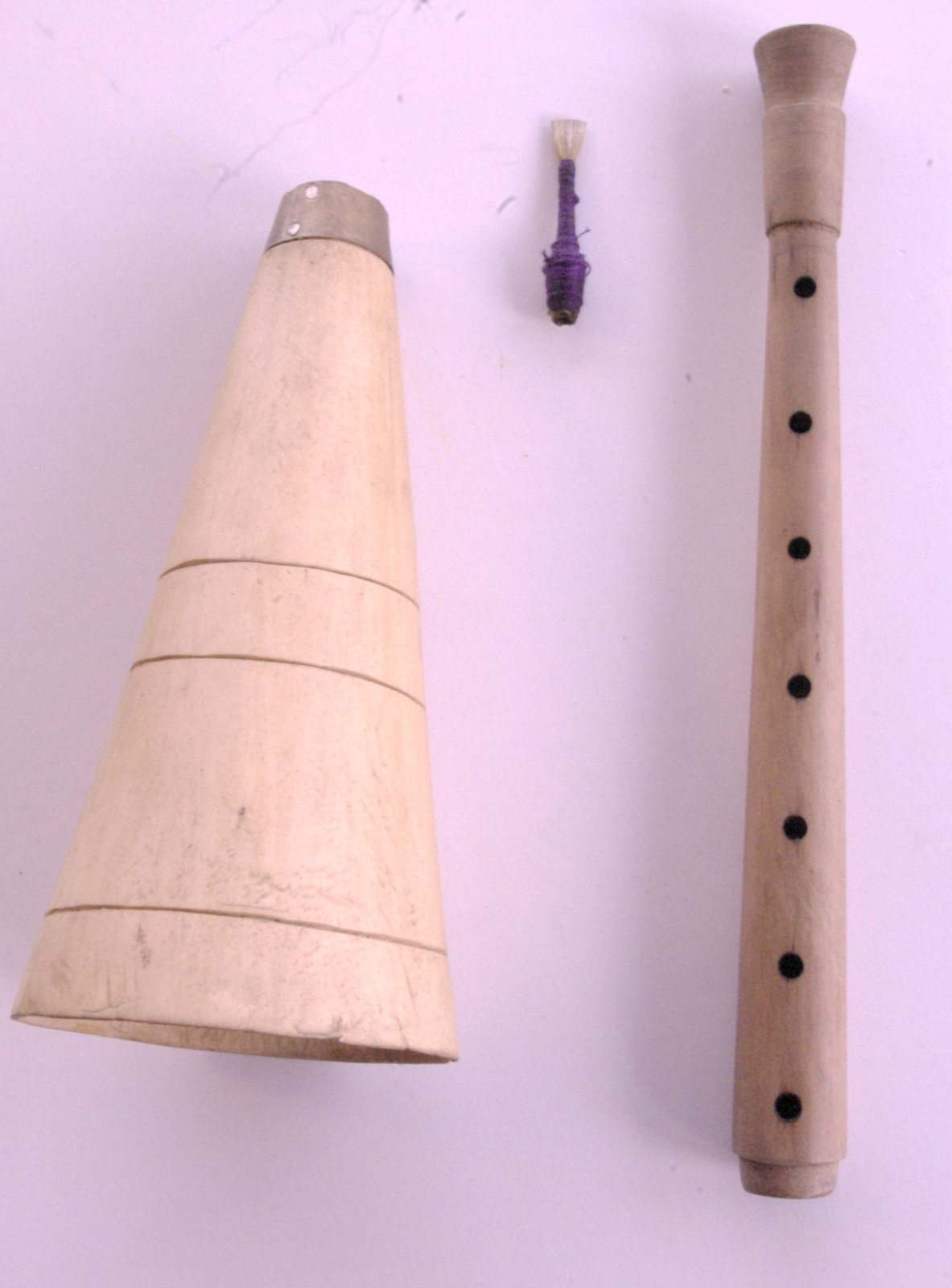 Tangmuri, double-reed woodwind instrument of the Khasi people of Meghalaya, showing chanter, bell, and reed